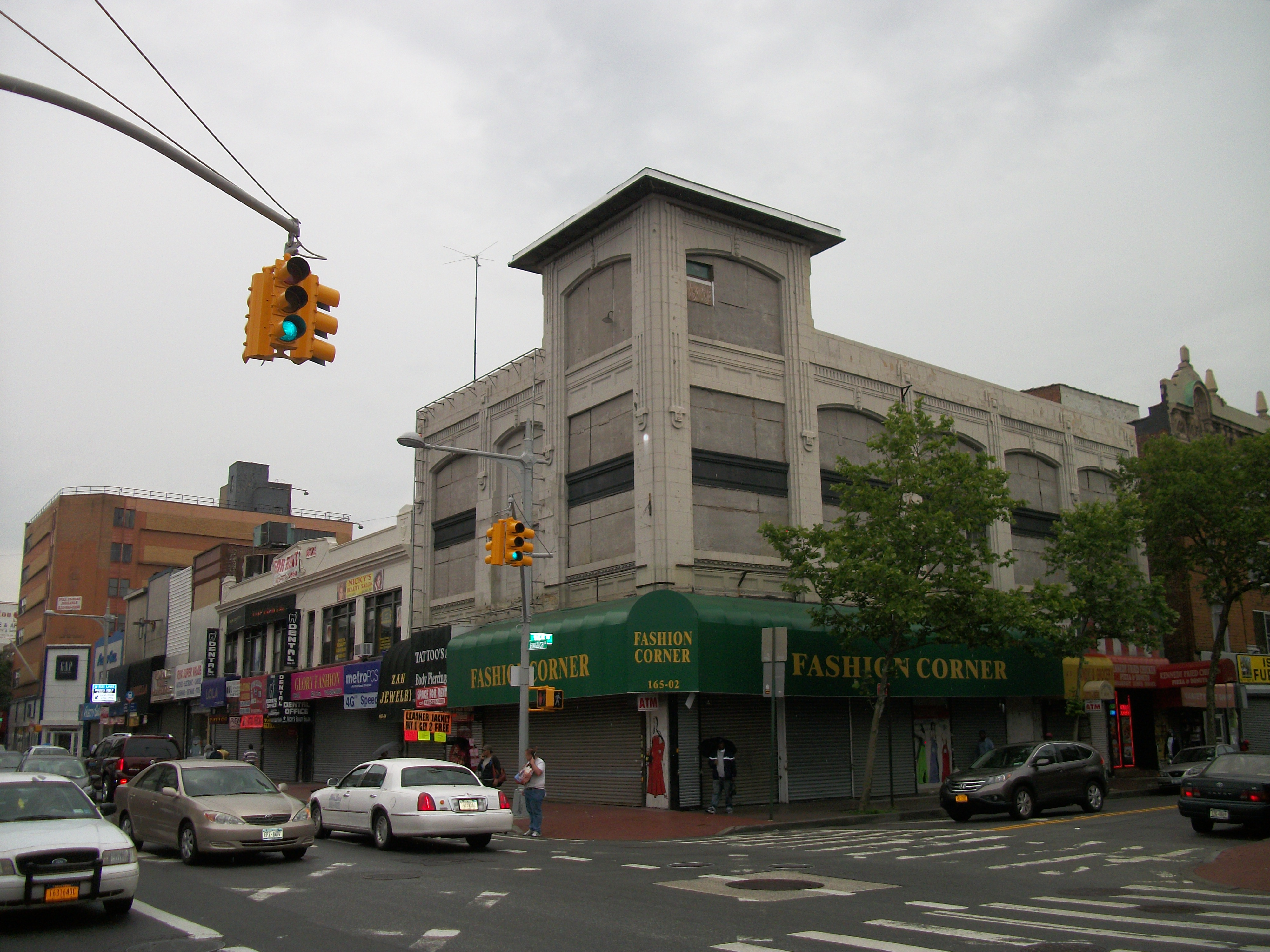 "Fashion Corner," a store front on the southeast corner of Jamaica Avenue and 165th Street in Jamaica, Queens, that was once the station house of the 168th Street (BMT Jamaica Line).